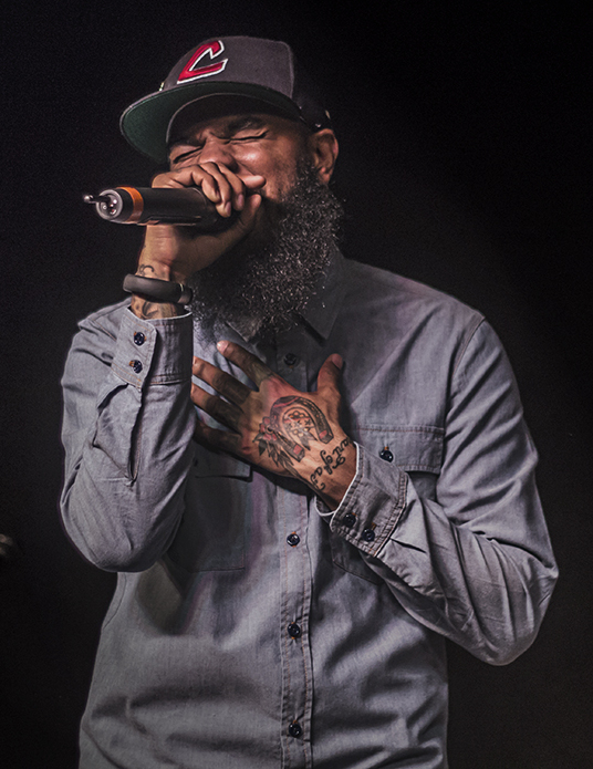 APK Live In London, Ontario. June 1 2012.